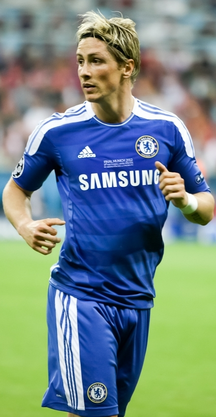 Fernando Torres during the UEFA Champions League Final with Chelsea on May 19, 2012.